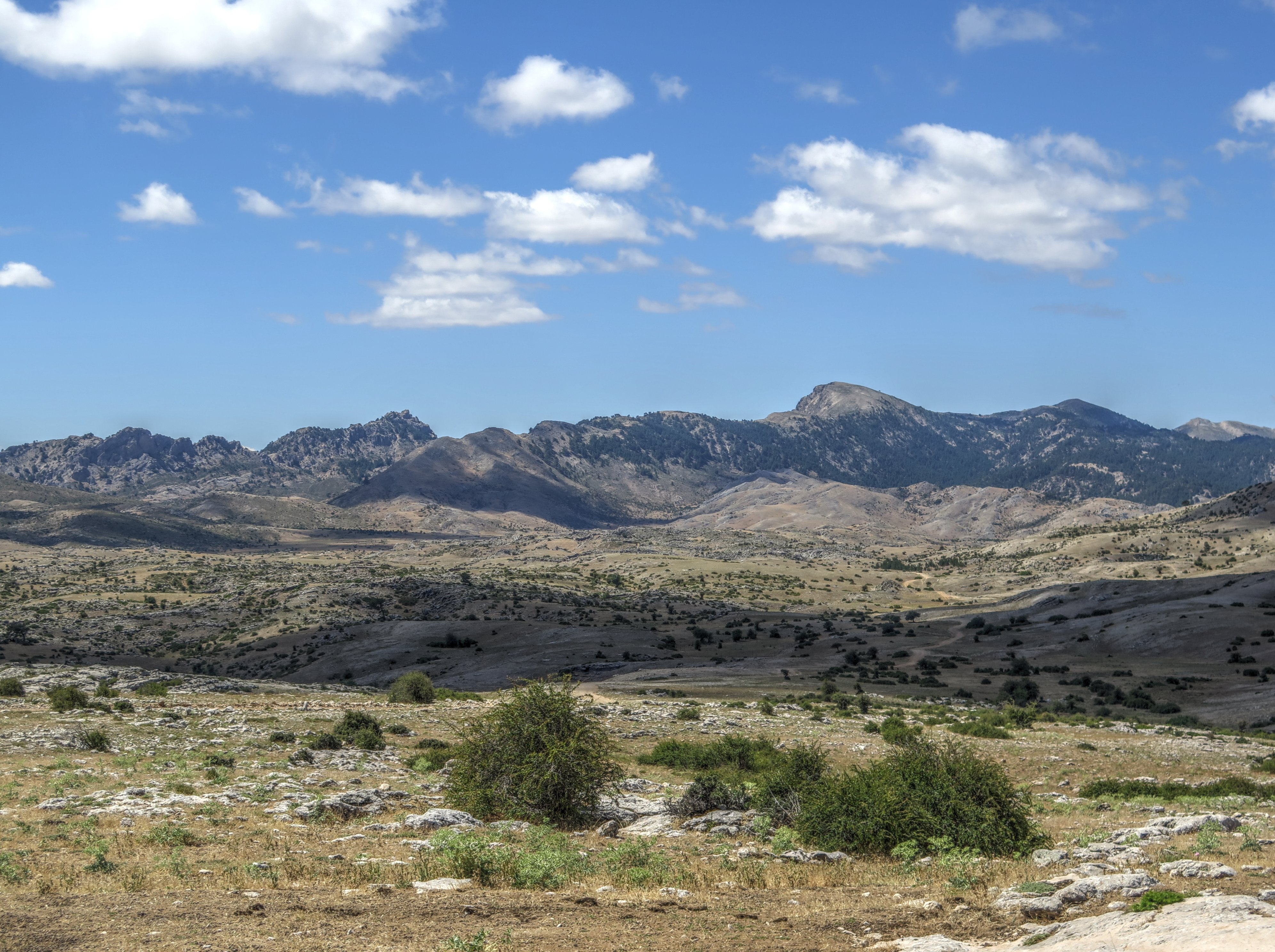 Vista de los Campos de Hernán Perea, con las Banderillas al fondo.